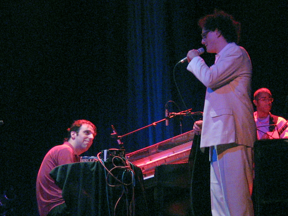 Canadian Musician Gonzales and canadian musician Socalled at a concert at the Théatre National in Montreal, Canada